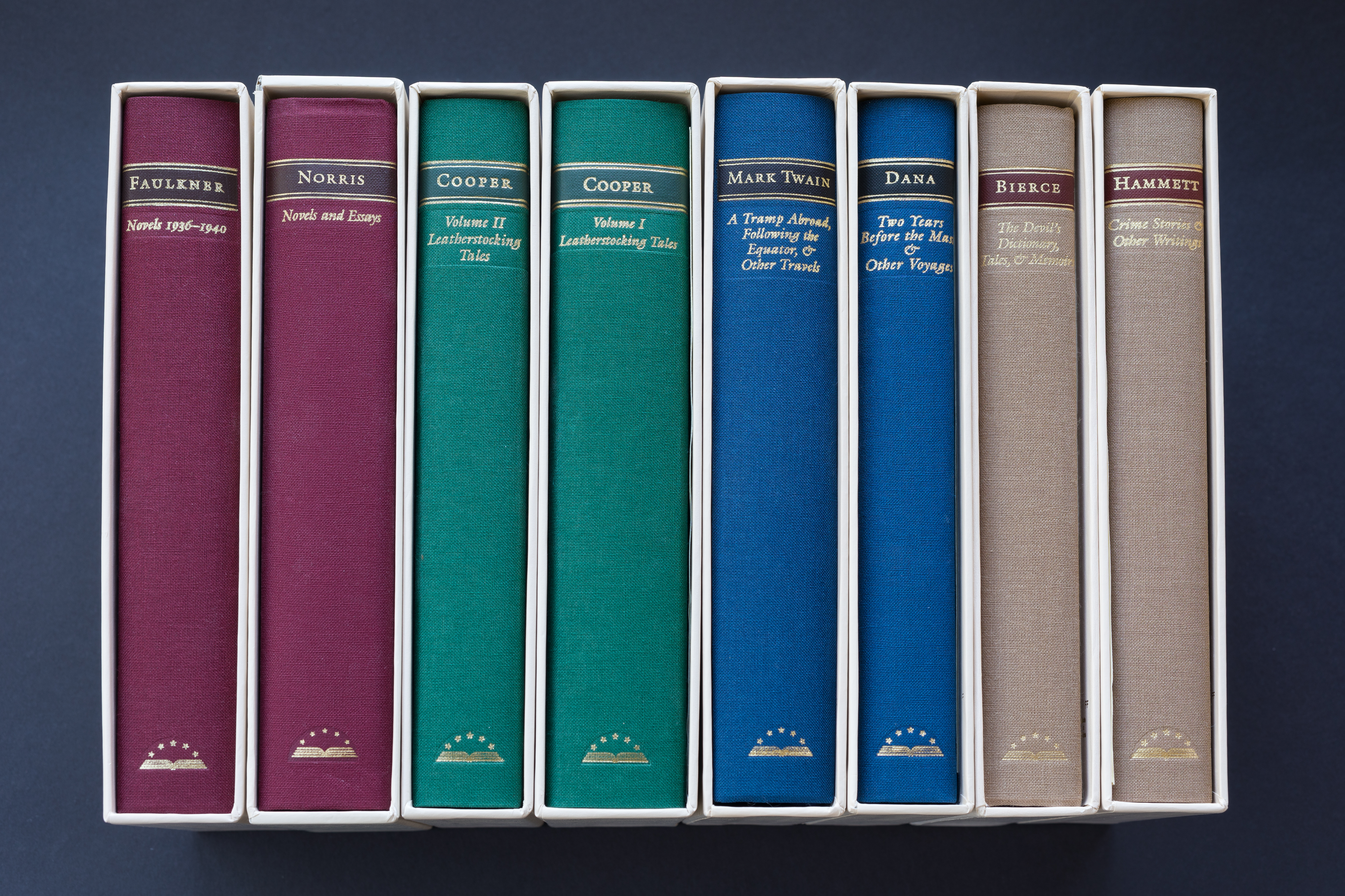 Sample of Library of America volumes